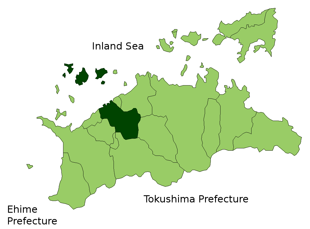 Map of Kagawa Prefecture highlighting Marugame city. Borders of map as of October, 2006. (blank map used from [1]) See also Image:KagawaMapCurrent.png